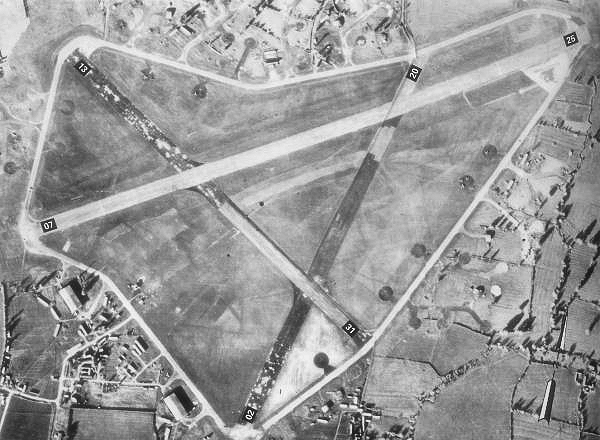 Aerial photograph of Keevil Airfield.